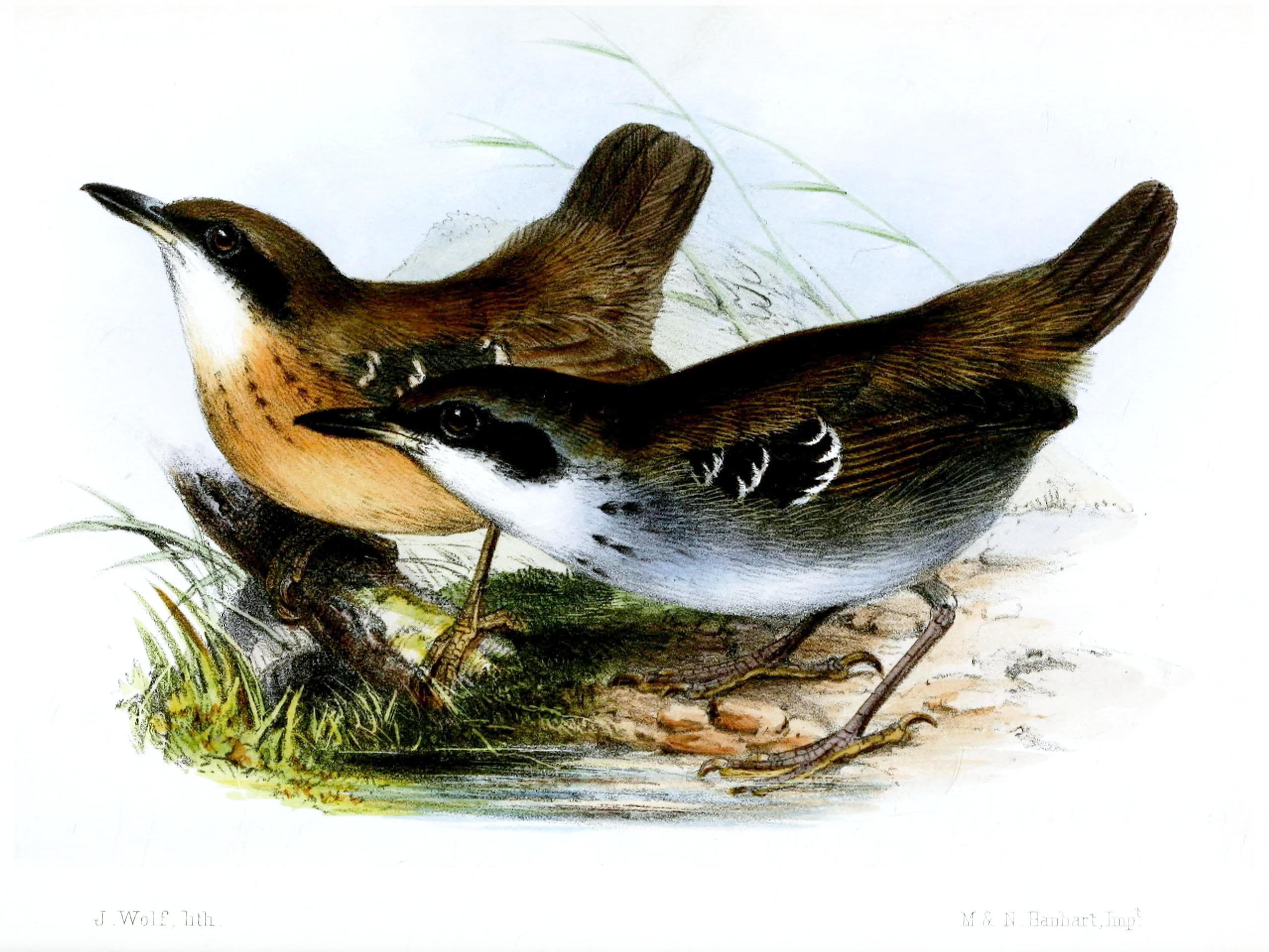 Black-faced Antbird, juvenile male (front) and adult female (behind)